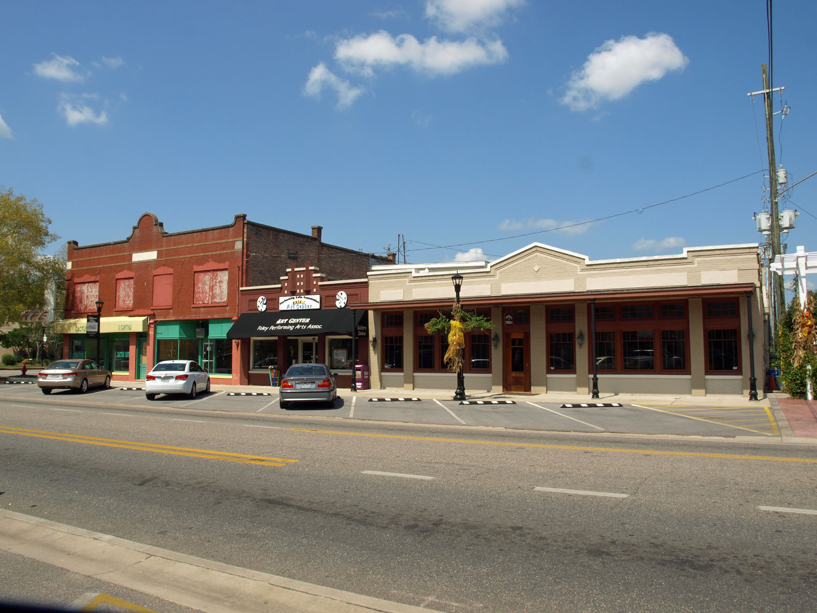 The 100 block of West Laurel Avenue in Foley, Alabama, part of the Foley Downtown Historic District.